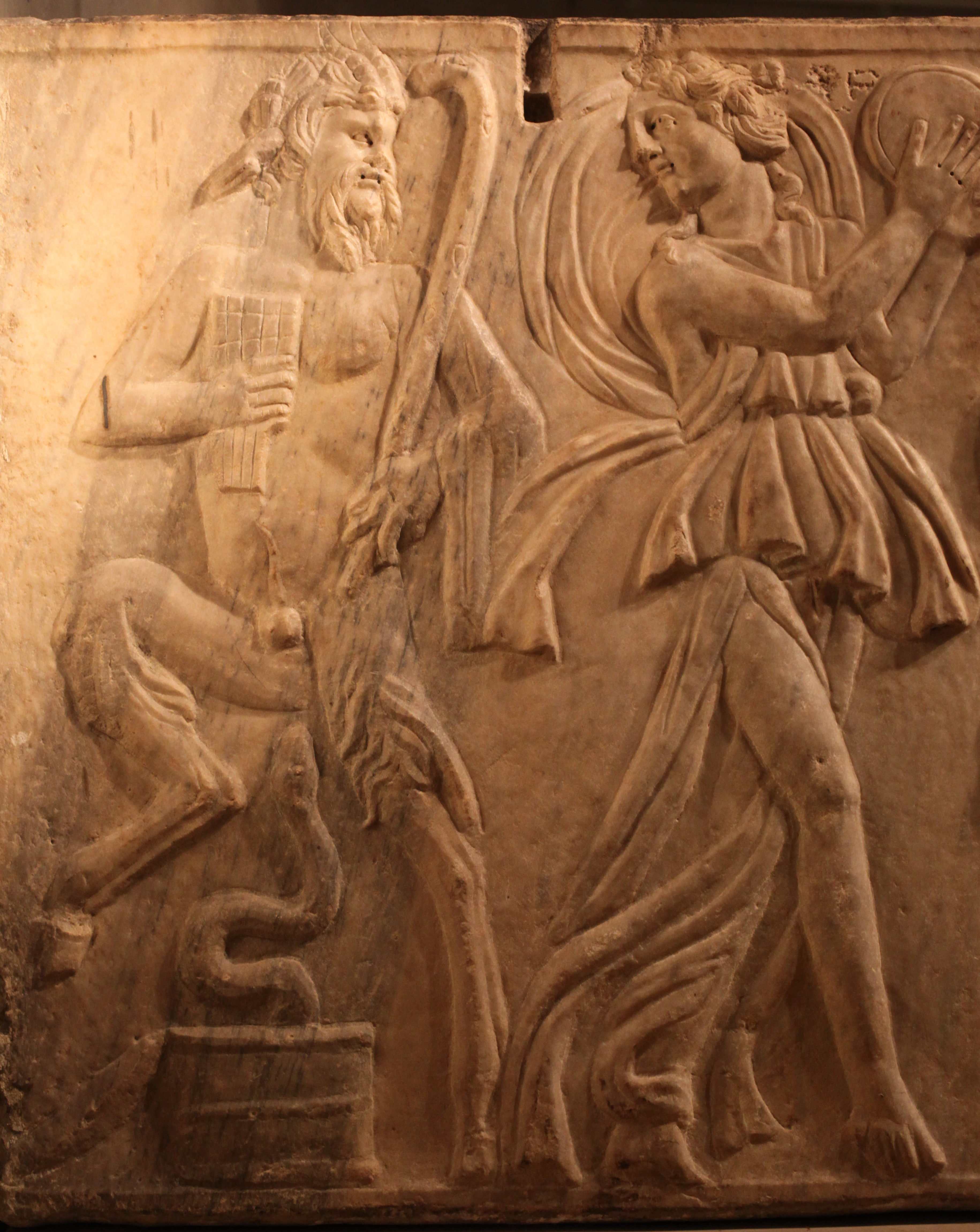 Roman sarcophagus: Triumph of Bacchus. Left side: Bacchante playing the tambourin and turing towards Pan Foreside: Indian victory. On the left, a procession of a satyr, a Victoria and Bacchantes, and Bacchus on a chariot drawn by two panthers turning towards Ariadne; centre, two Indian prisonners on camels and elephants; right, drunken Hercules supported by a satyr and embracing a nymph. Right side: satyr embracing a Bacchante playing the lyre